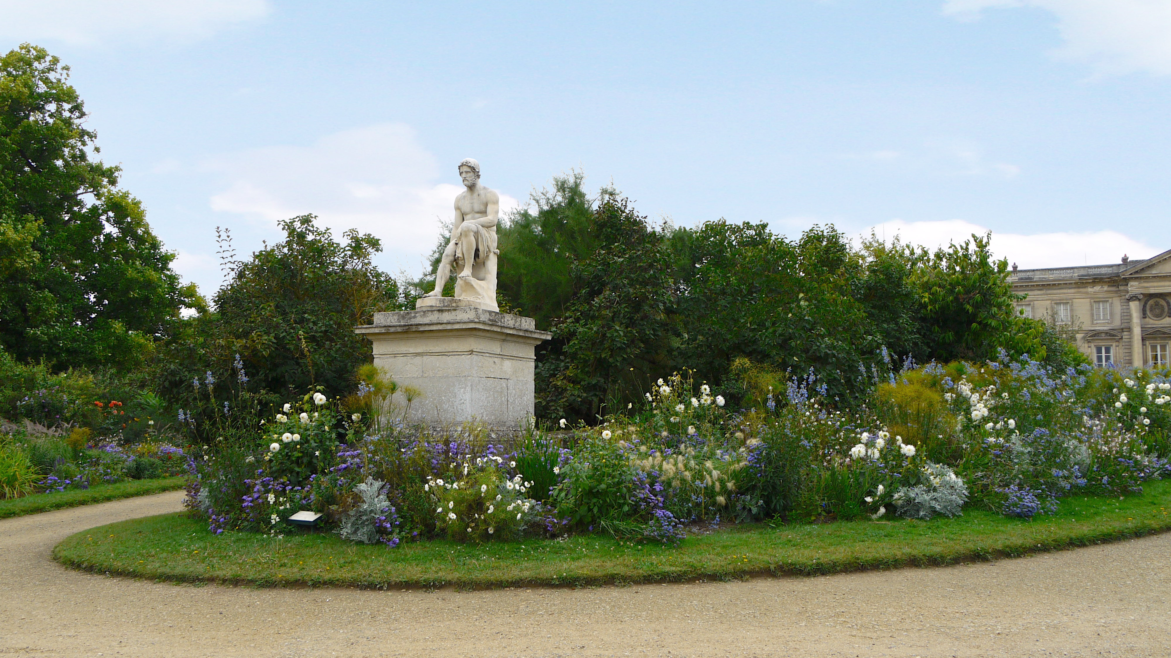 Château de Compiègne, park